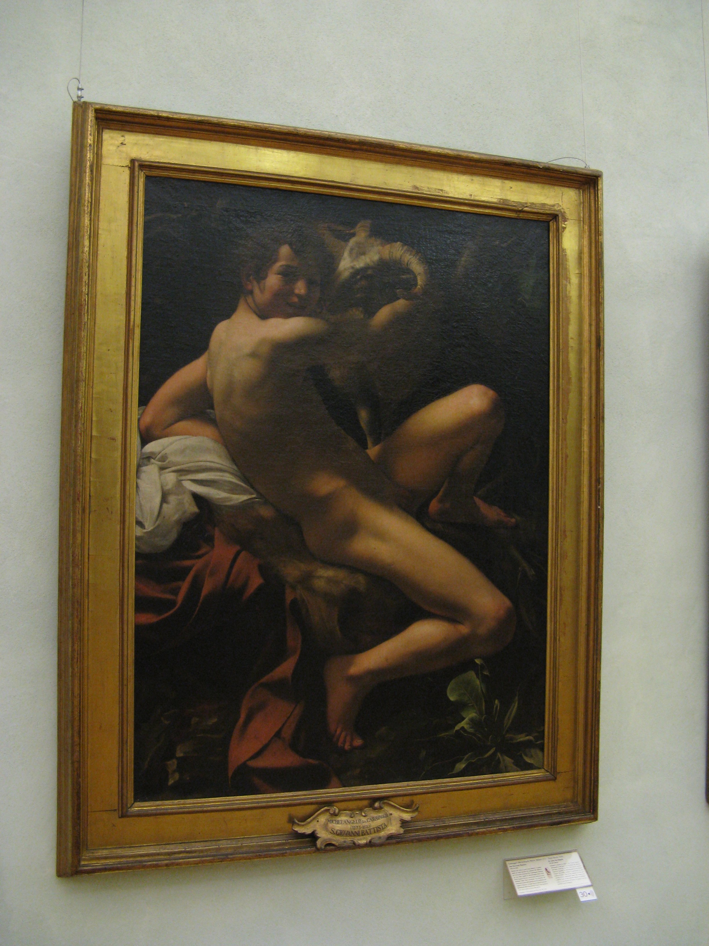 Saint John the Baptist by Caravaggio at Musei Capitolini.